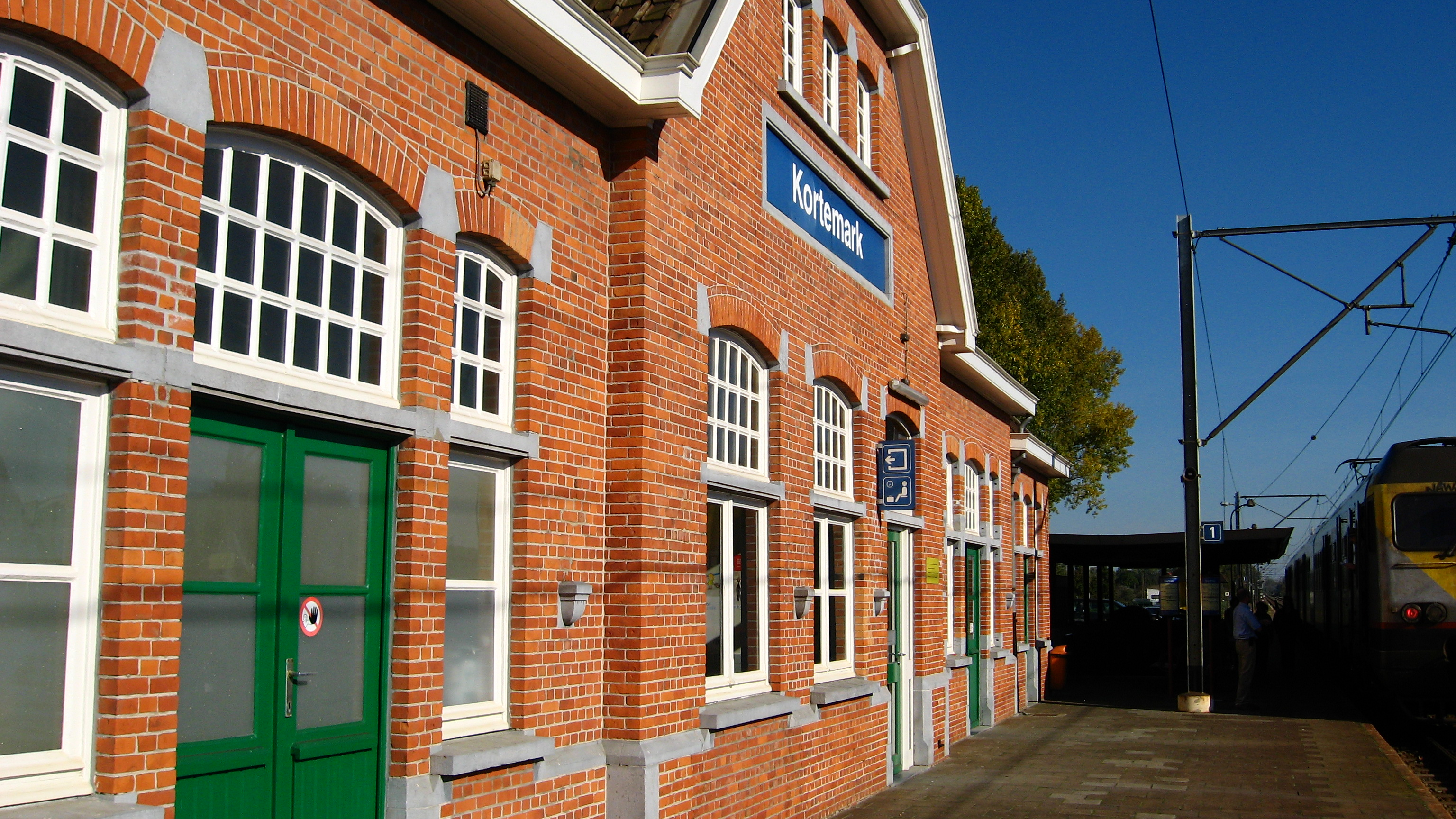 Kortemark NMBS station